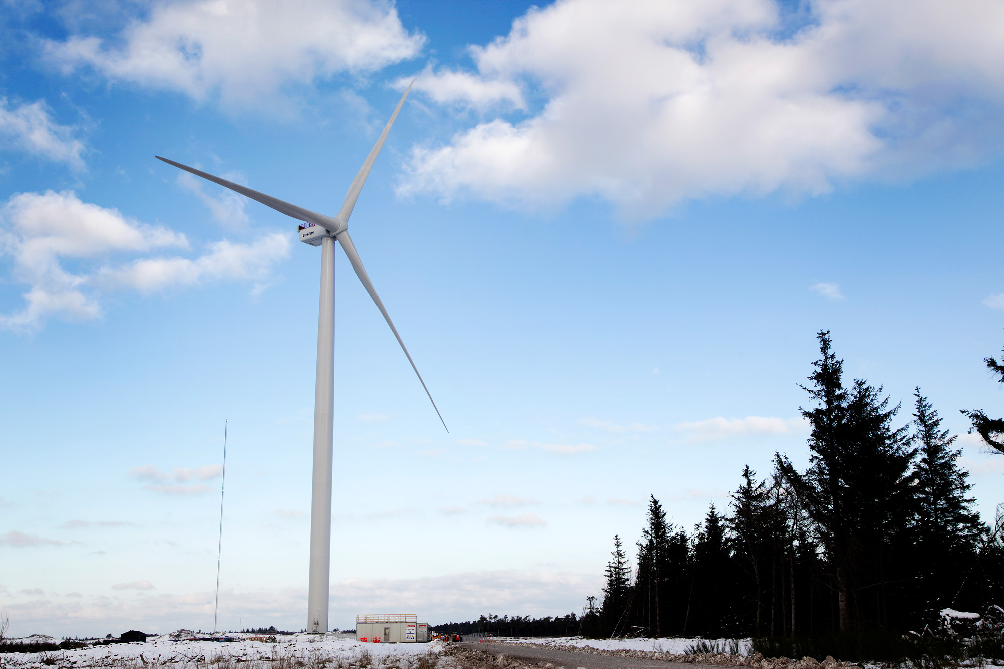 Vestas' first V164-8.0 MW prototype wind turbine has successfully produced its first kWh of electricity, making it the worlds' most powerful turbine in operation.